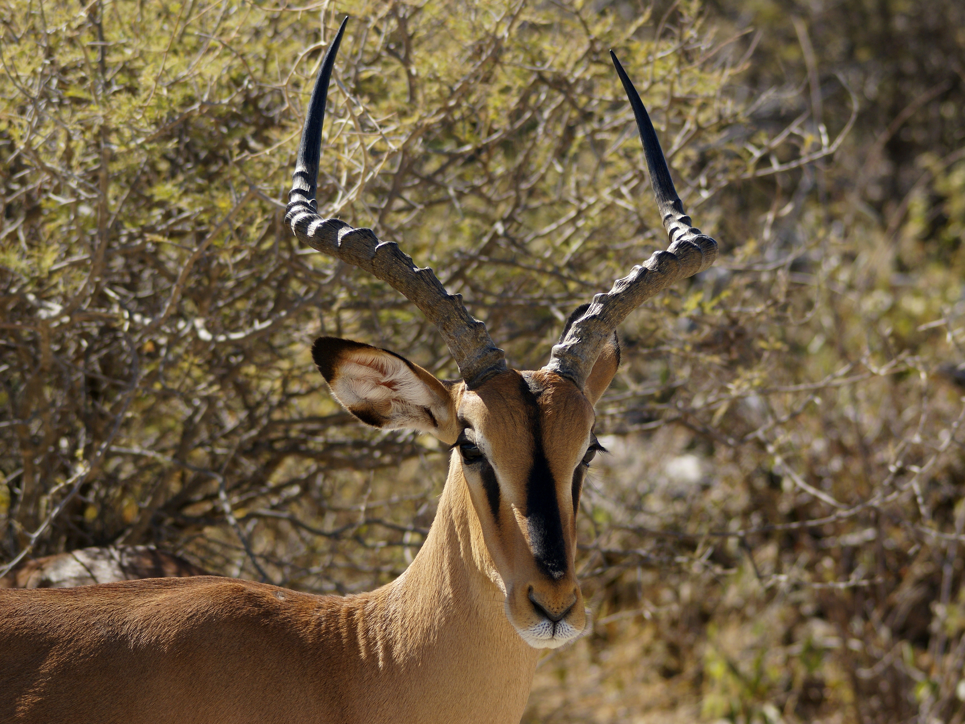 Portrait of a Black-faced Impala ram between Olifantsbad and Aus, in Etosha National Park, Namibia.